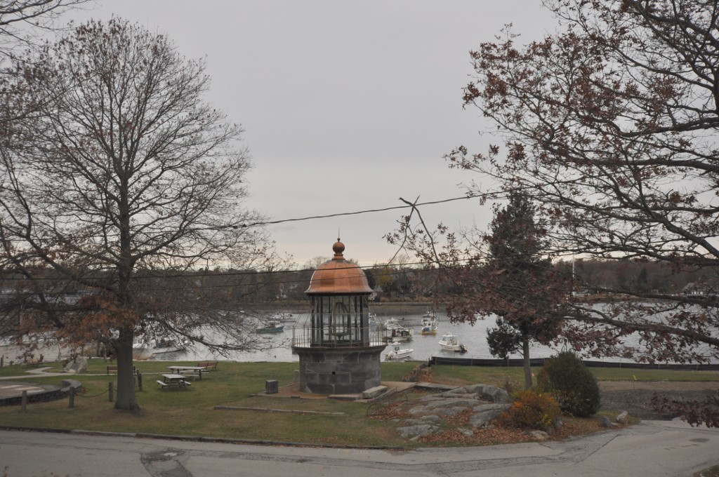 The memorial park at Government Island, Cohasset, Massachusetts. It is at this site that the Minot's Ledge Light underwent test construction; the temporary foundations used for the purpose are partially visible on the far left side of this picture.